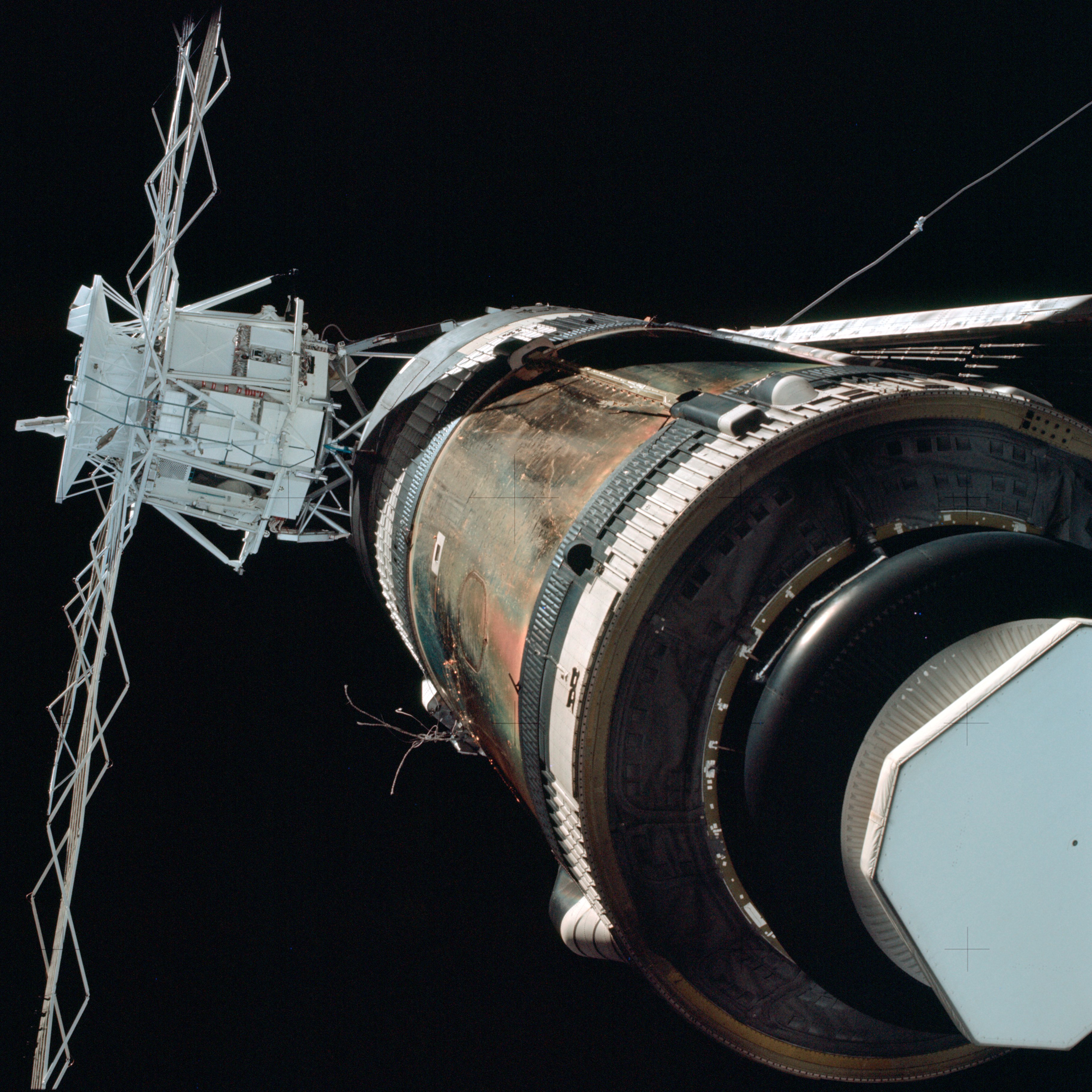 A view of the Skylab 1 space station Orbital Workshop showing the micrometeoroid shield missing. A parasol solar shield was later deployed to shade this exposed area. This picture was taken from the Skylab 2 Command/Service Module during its "fly around" inspection. The Apollo Telescope Mount is in the background. The damaged and partially deployed OWS solar array system wing is at upper right. After an aluminum strapping was cut during the June 7th extravehicular activity, the solar panel fully deployed. The OWS solar panel on the opposite side was completely ripped off during the Skylab 1 launch on May 14th leaving only cables and tubing.